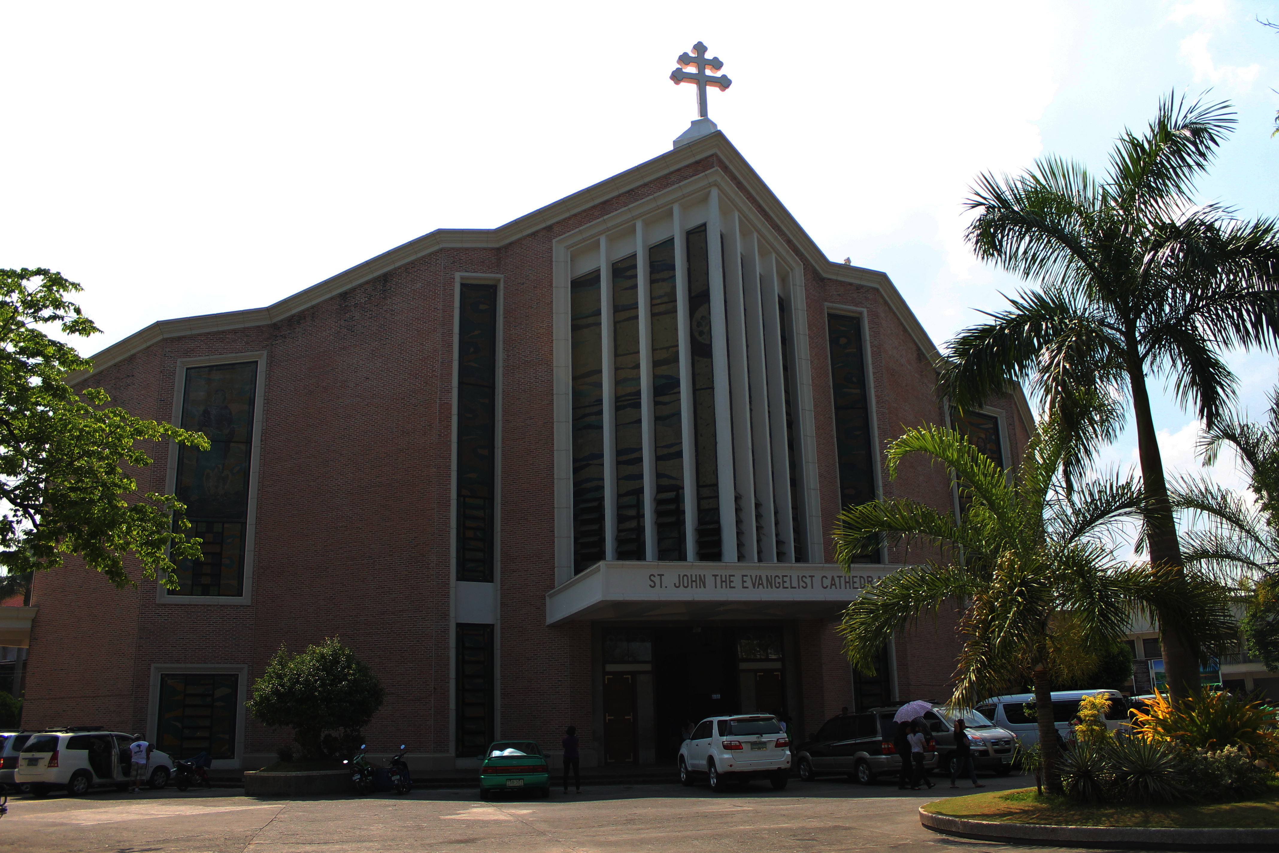 Facade of the Dagupan Cathedral (Pangasinan, Philippines). It is the seat of the Archdiocese of Lingayen-Dagupan and is formally known as the Cathedral of St. John the Evangelist